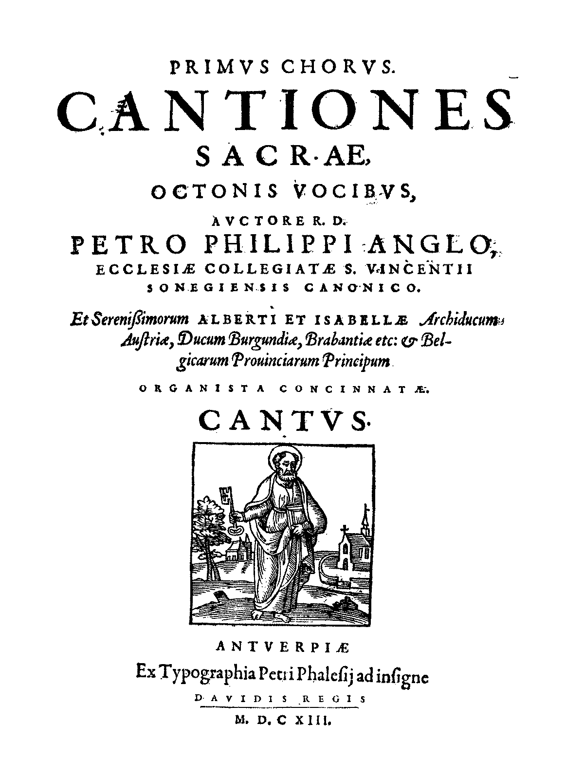 Cover of the score of Cantiones Sacrae Octonis Vocibus by the English composer Peter Philips (c.1560–1628)